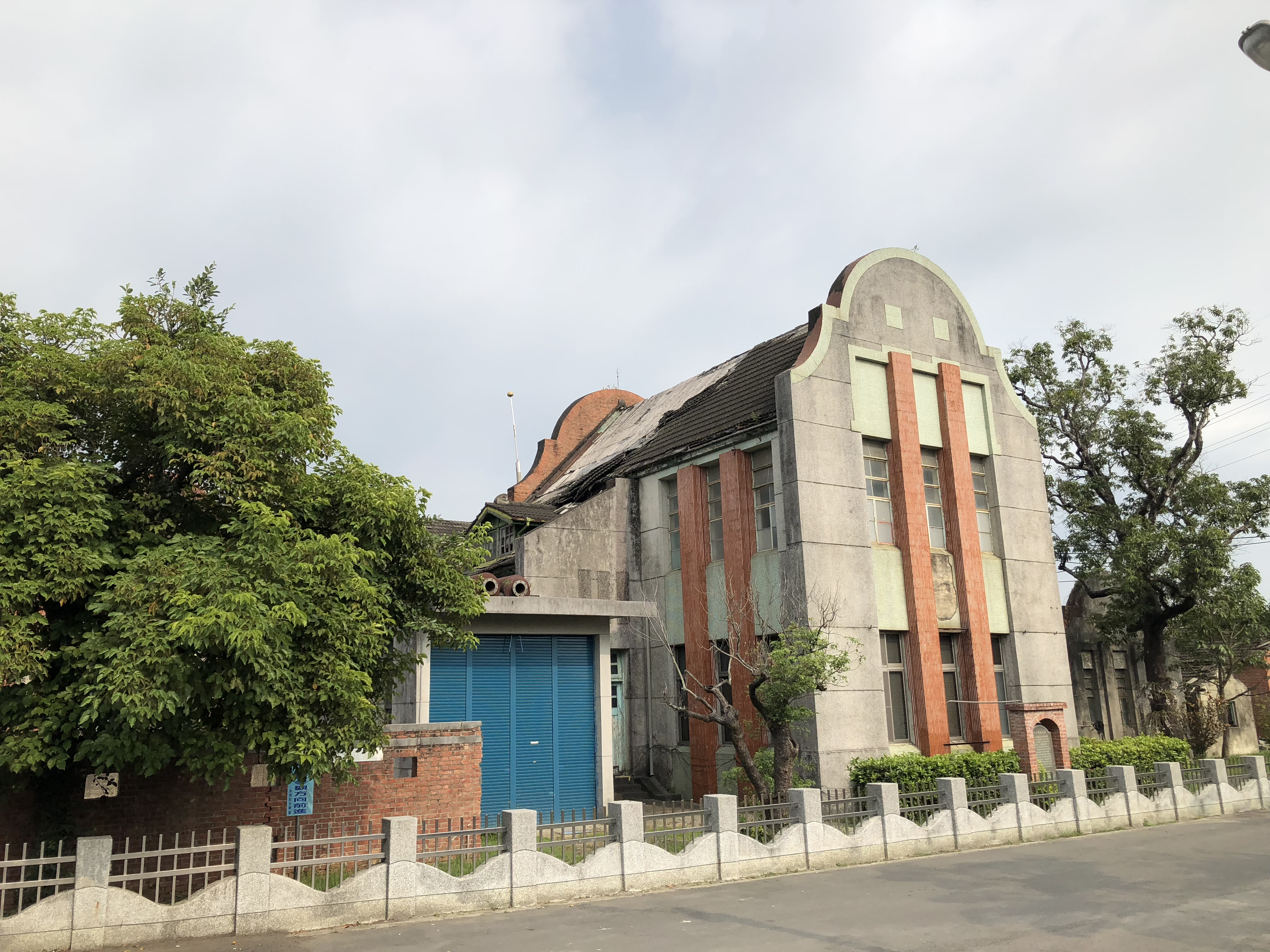 大樹竹寮取水站